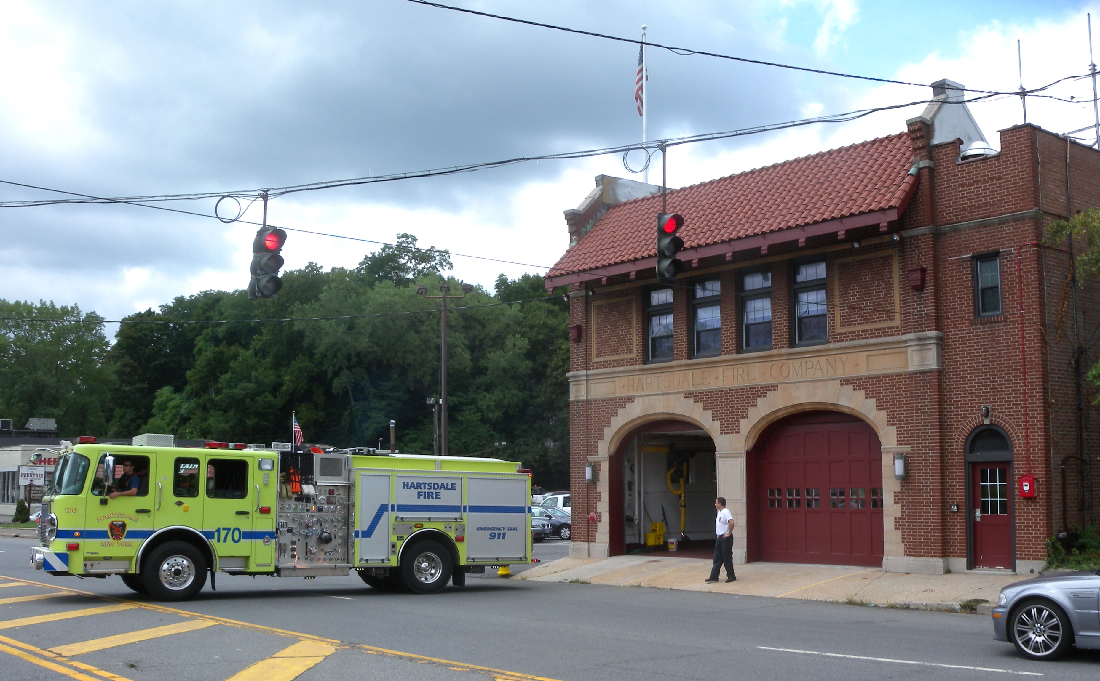 Looking southwest at engine backing into Hartsdale firehouse on a sunny midday.